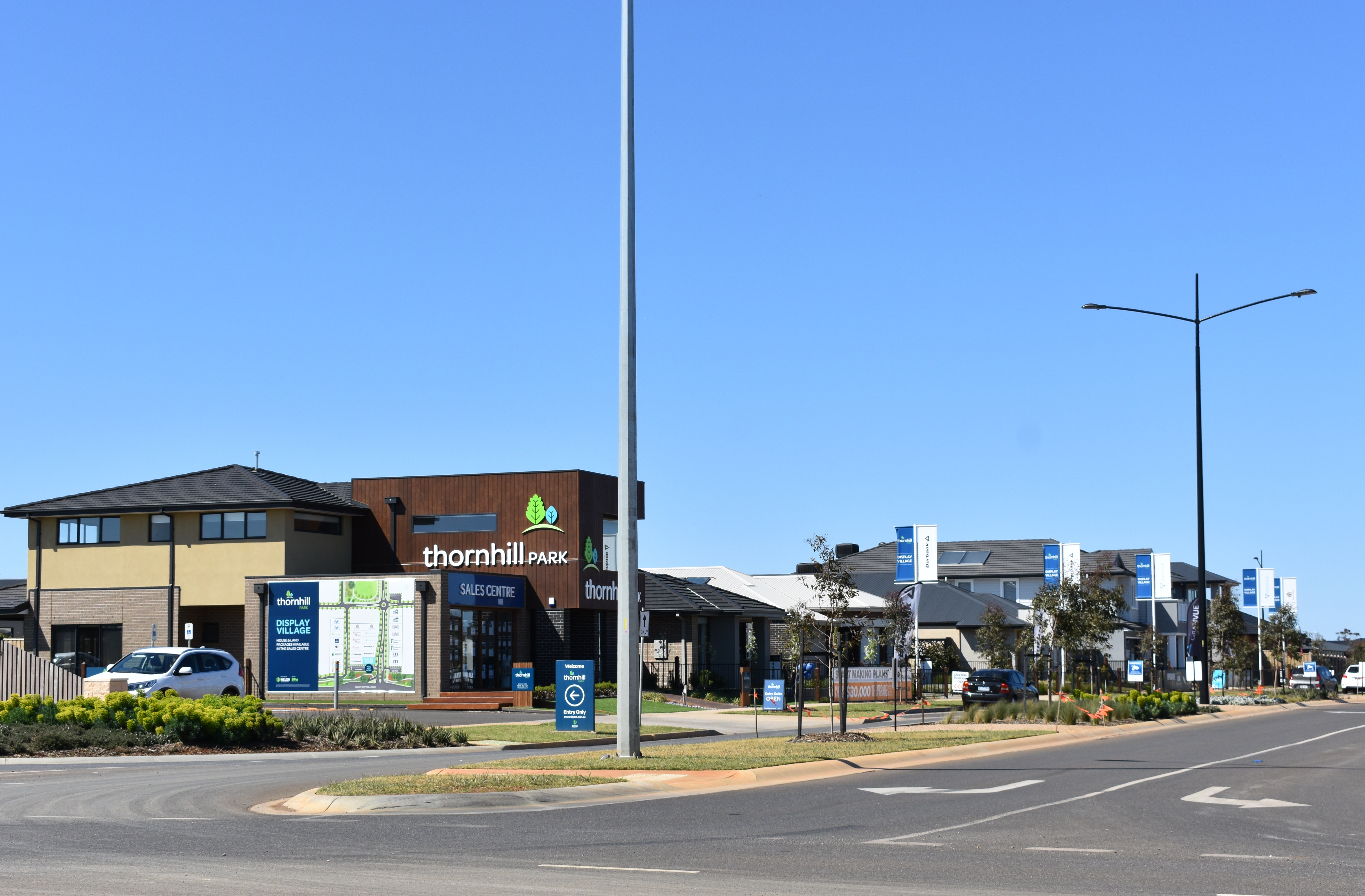 A new housing subdivision at Thornhill Park, Victoria